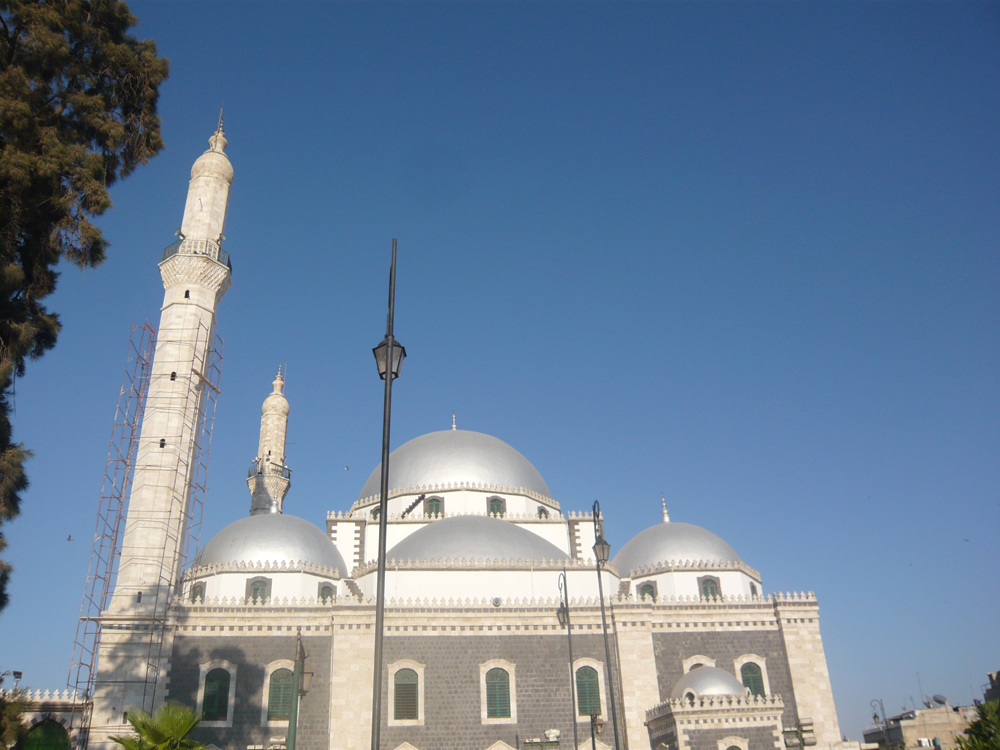 a Photo for Khaled Ibn Al-Waleed Mosque in Hims City.